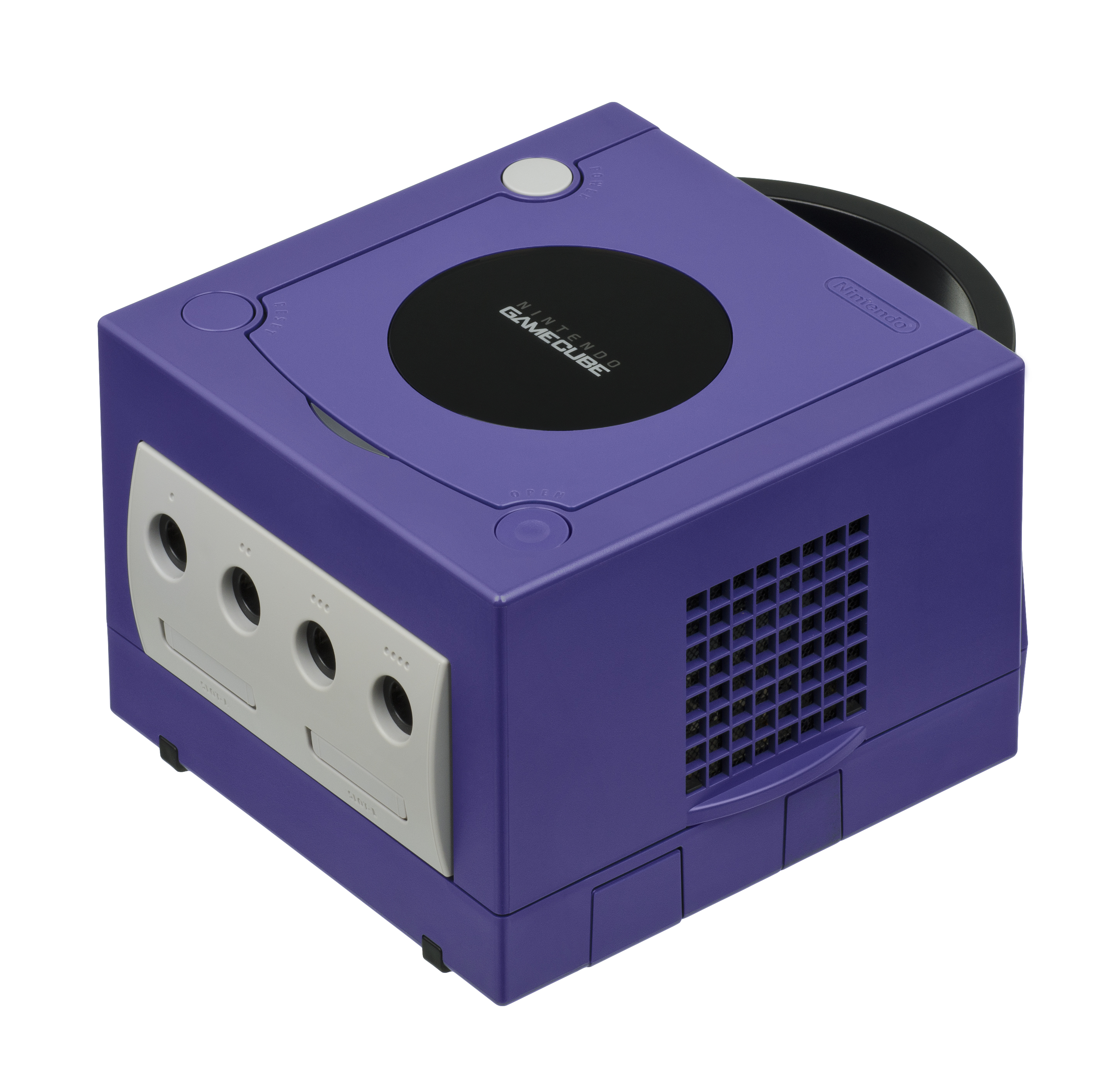 The GameCube, a sixth generation video game console that was introduced by Nintendo in 2001.